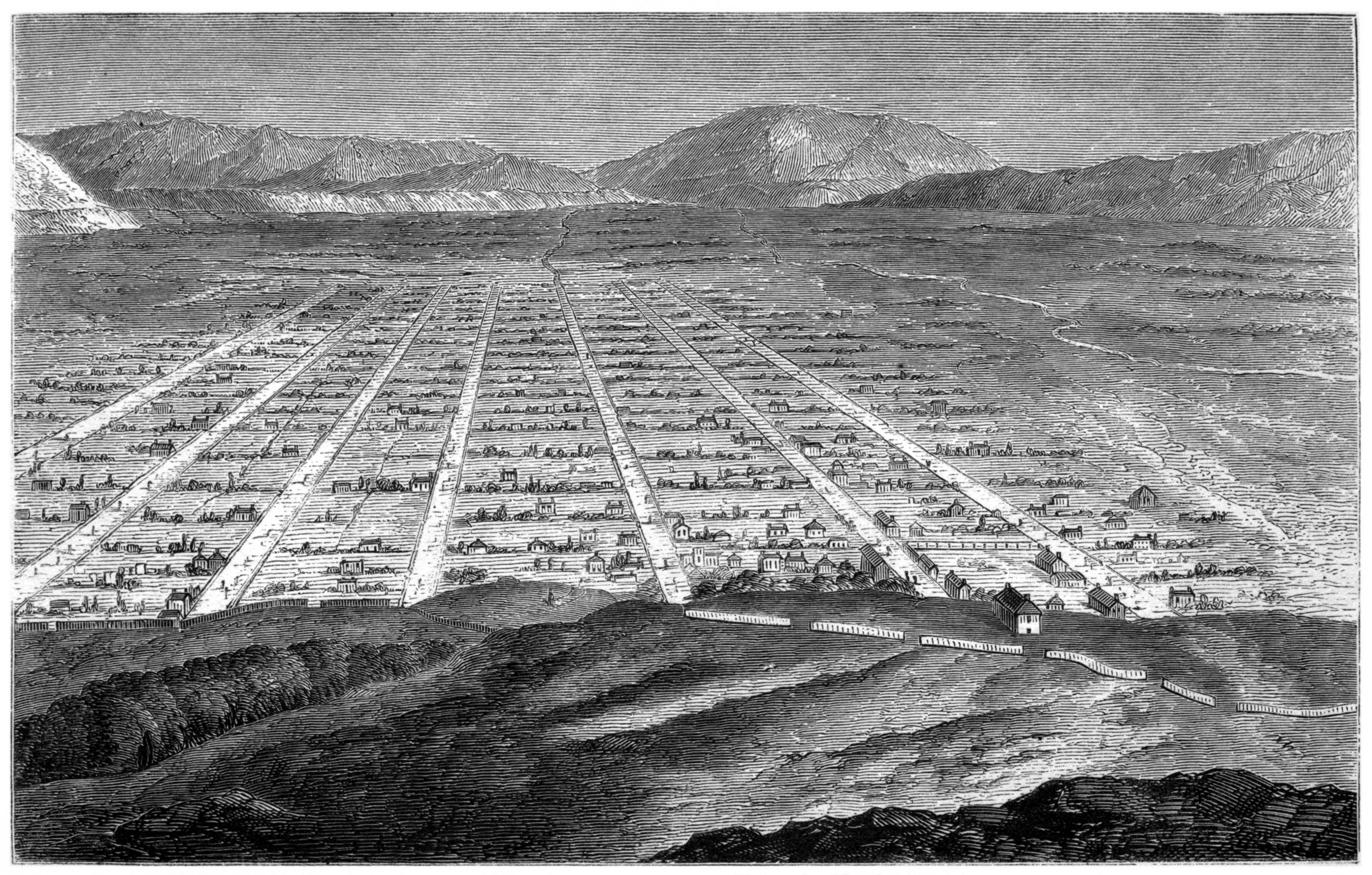 Picture looking south down on Salt Lake City, Utah, in 1860 which appeared in Richard F. Burton's City of the Saints; 7th page of The City of the Saints.djvu